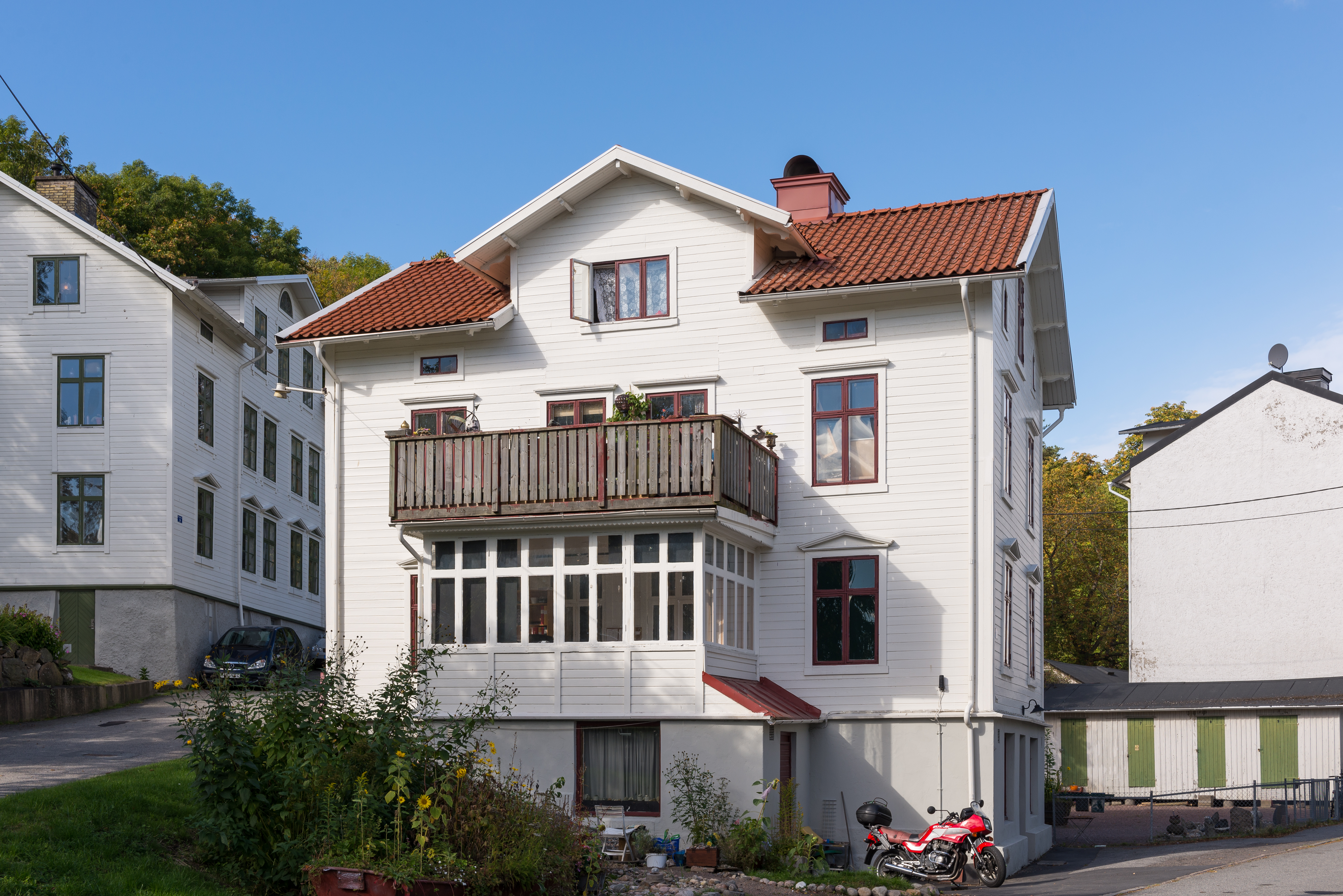 Buildings in Färjestaden, Göteborg.